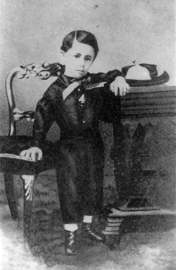 Photo of Prince Albert Edward Kauikeaouli Leiopapa a Kamehameha in his fireman outfit.